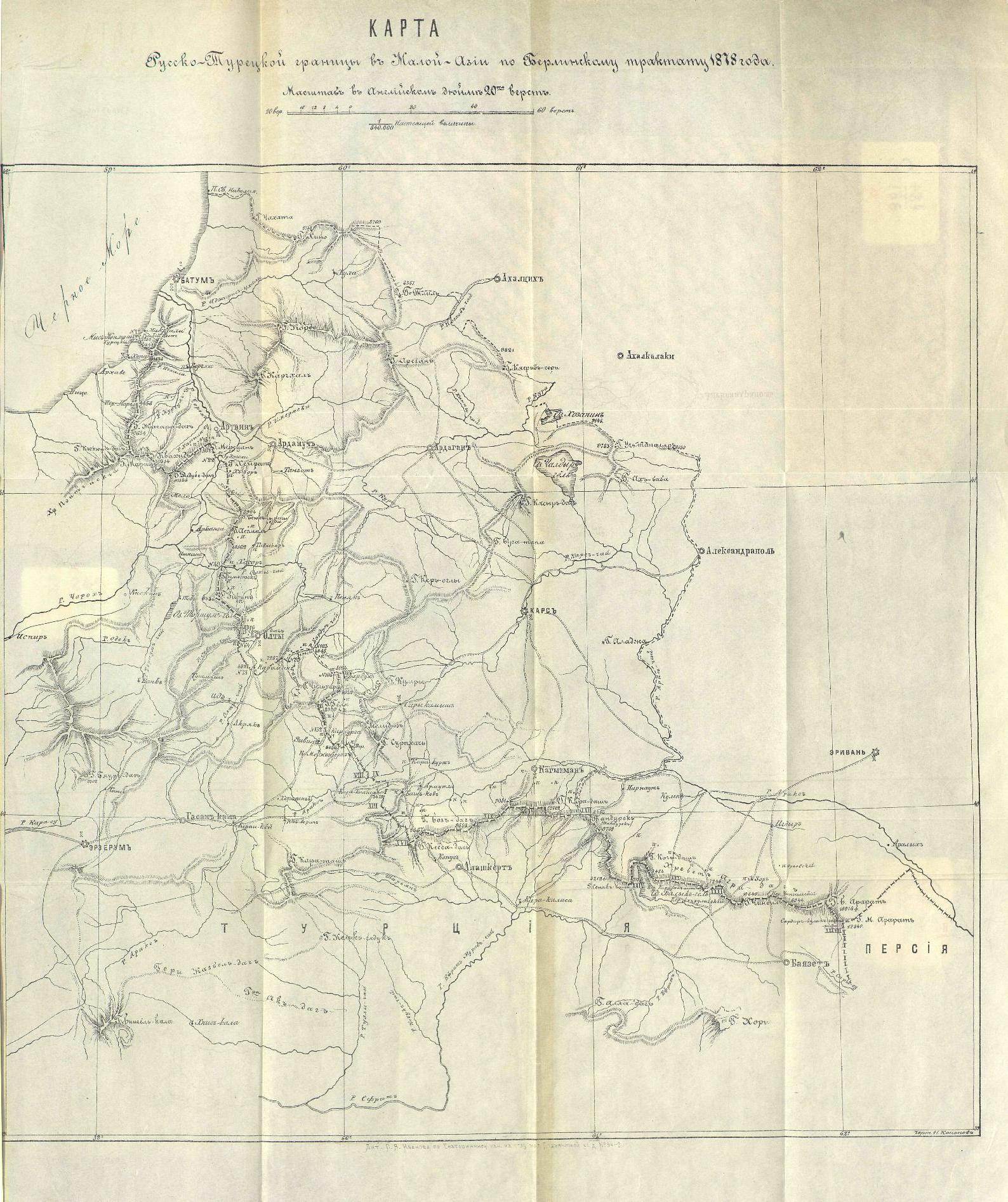 A map showing the Russian-Ottoman border in Asia Minor according to the Berlin Treaty of 1878